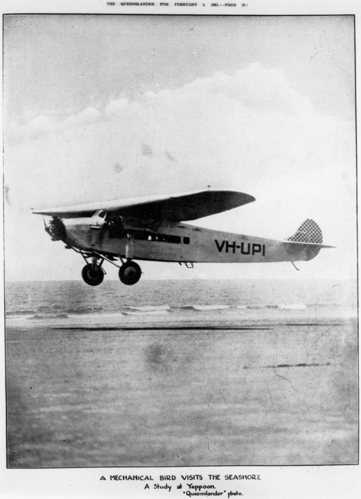 Flying low over the waves is an Avro 618 Ten, Yeppoon, 1931